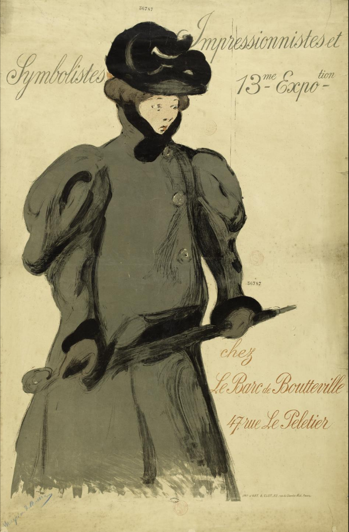 Impressionistes et symbolistes. 13e Exposition chez Le Barc de Boutteville, 47 rue Le Peletier, lithographic poster printed in Paris by Auguste Clot, dim. : 99 x 64 cm.